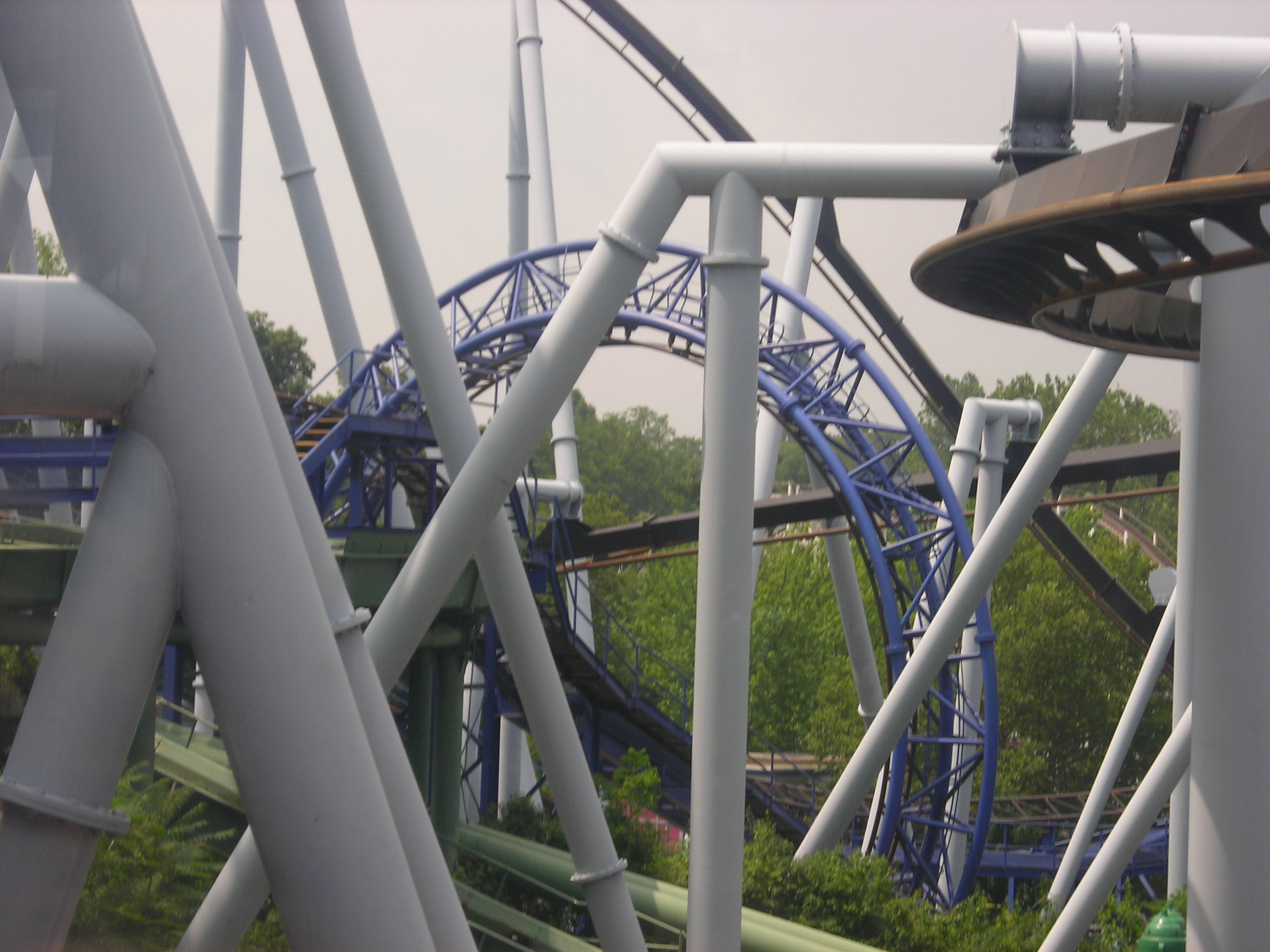 I took this picture myself. = good for you. -__